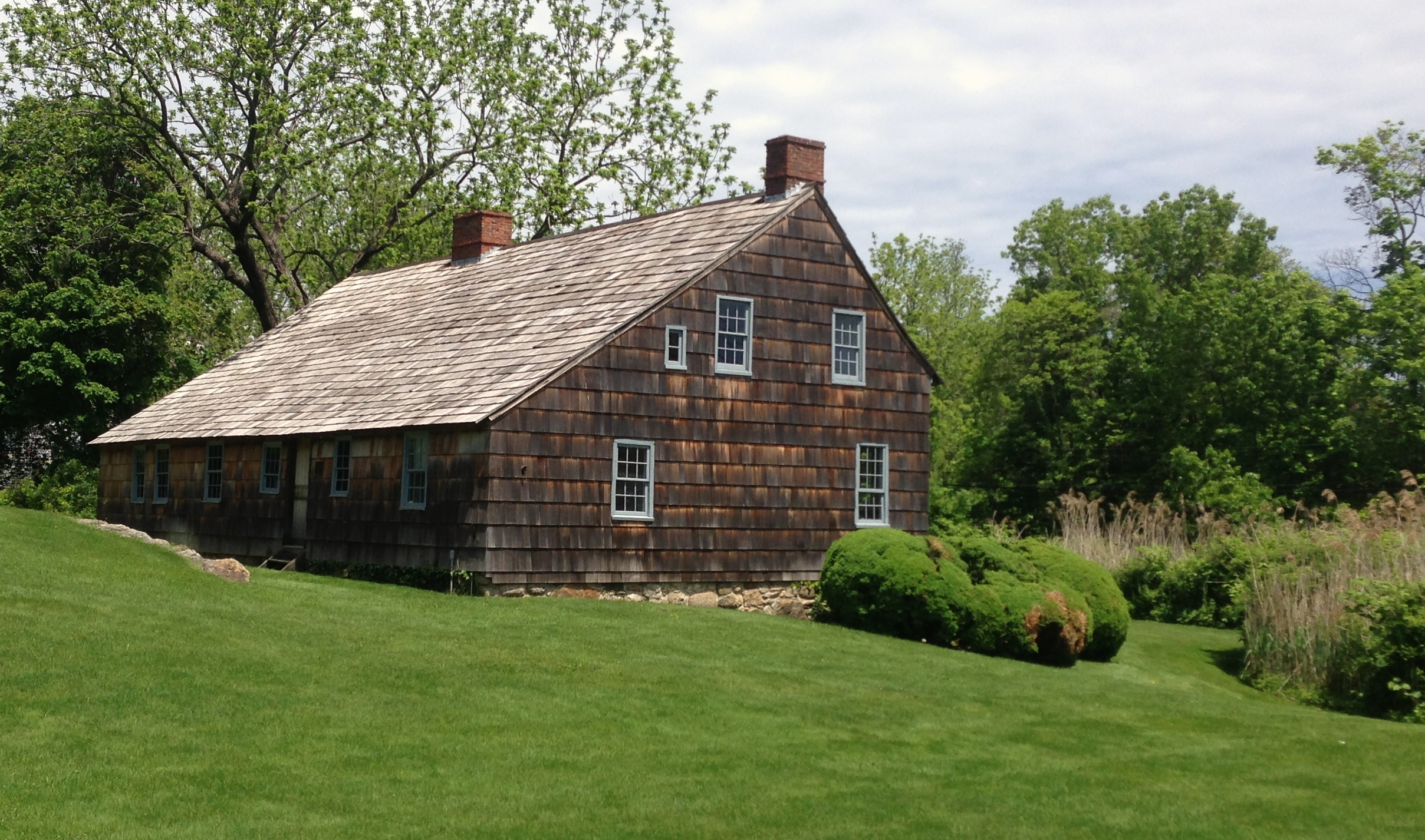 The Brewster House in Setauket, New York. The structure dates to 1665 and is the oldest house in the Town of Brookhaven.